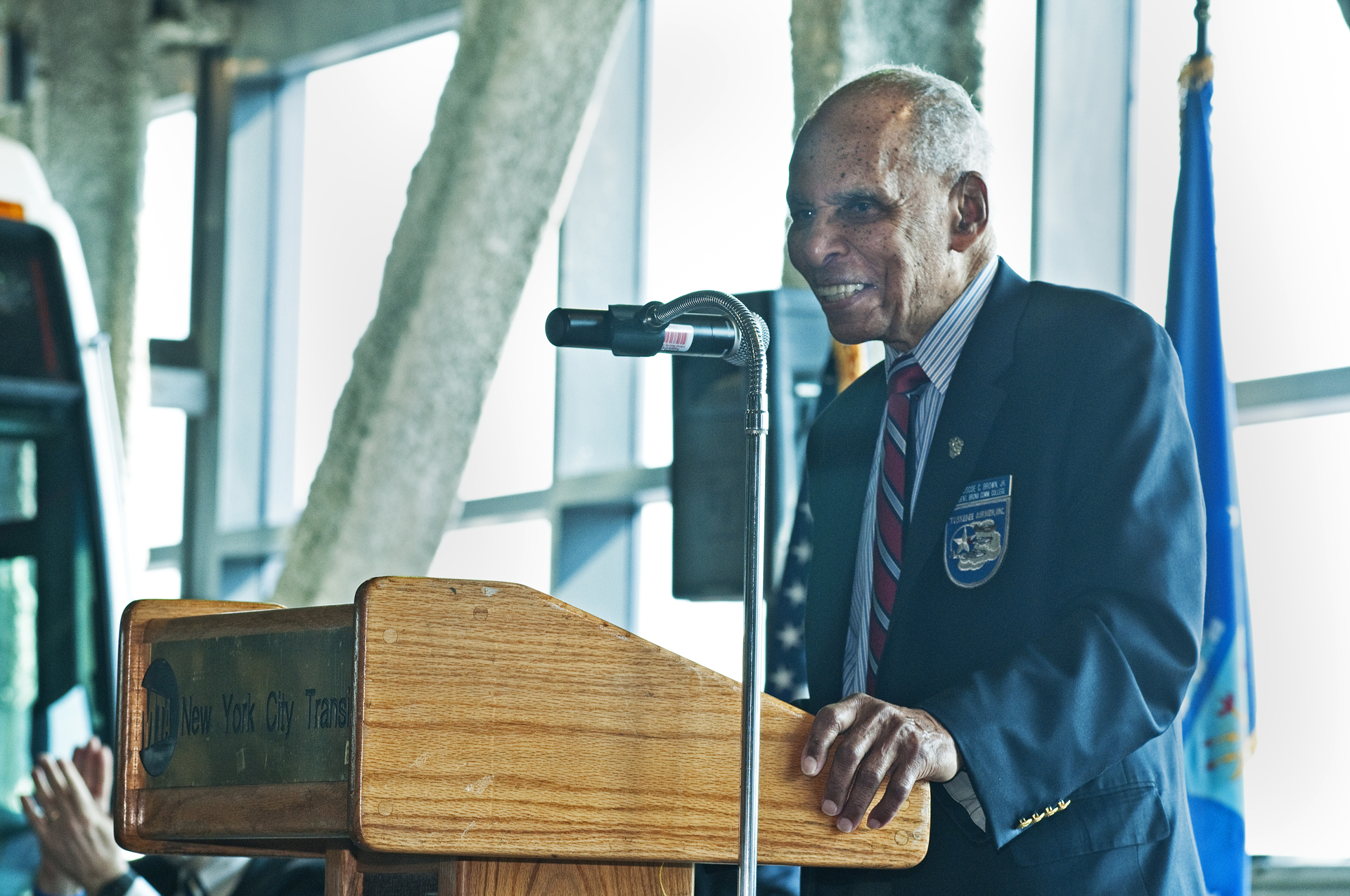 In honor of the World War II African-American military pilots and support personnel who made up the famed flight-training program at Tuskegee Army Air Field, on March 23, 2012, MTA New York City Transit renamed the 100th Street Bus Depot as The Tuskegee Airmen Bus Depot. Tuskegee Airman Roscoe C. Brown Jr. delivered remarks at the ceremony. Photo by Metropolitan Transportation Authority / Patrick Cashin.